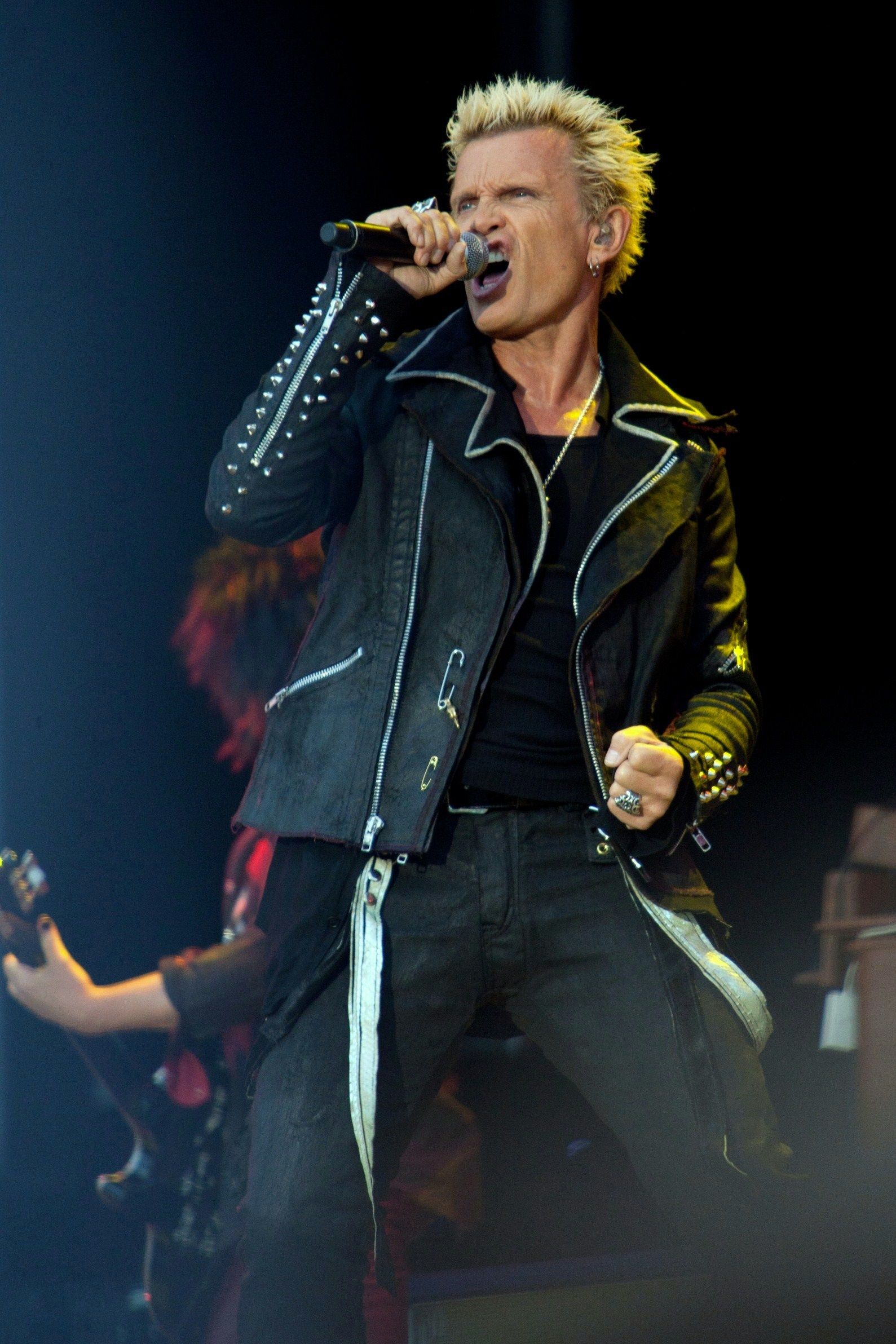 Billy Idol, Peace And Love Festival 2012.